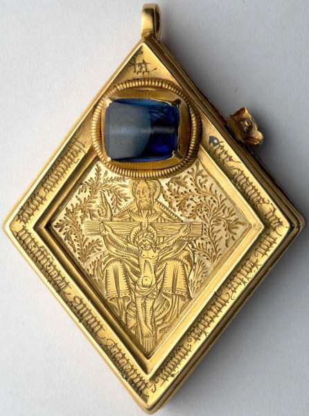 Gold lozenge-shaped pendant with a sapphire. Engraved with religious subjects and inscription.